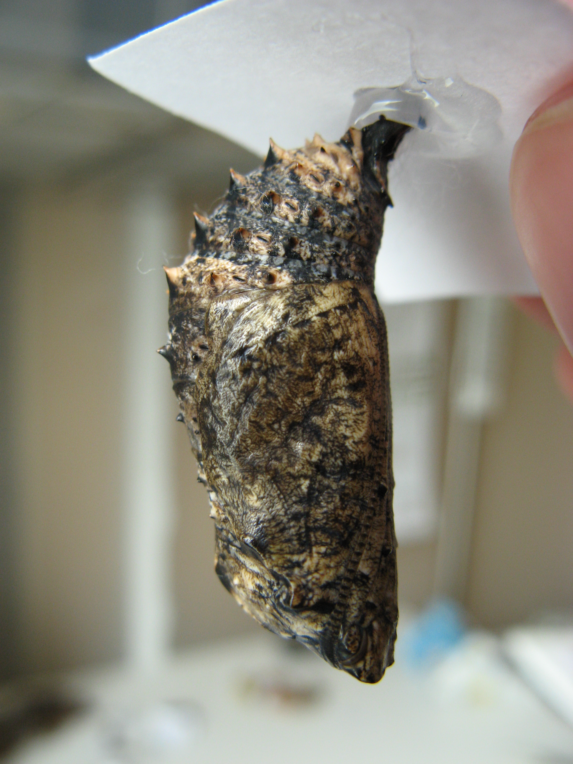 Kallima inachus chrysalis, lateral view.